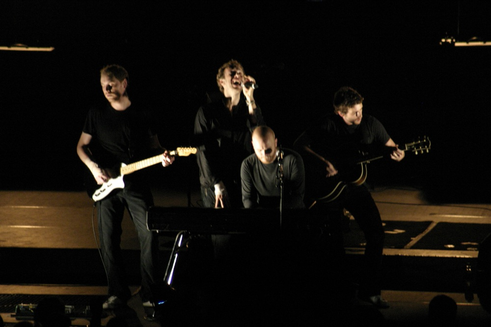 Coldplay performing at the Verizon Wireless Amphitheater in Bonner Springs, Kansas